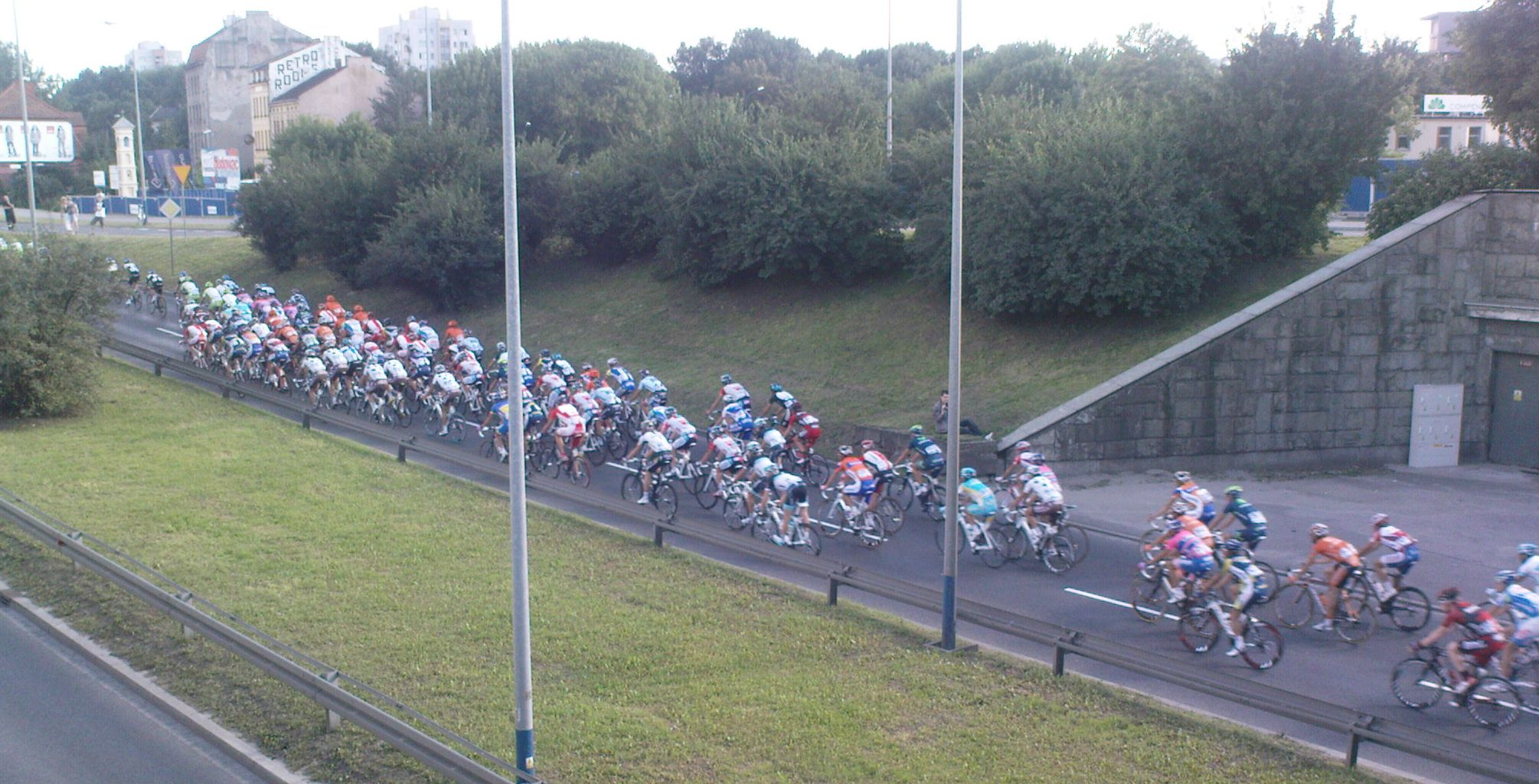 Tour de Pologne 2011 in Cracow, Poland